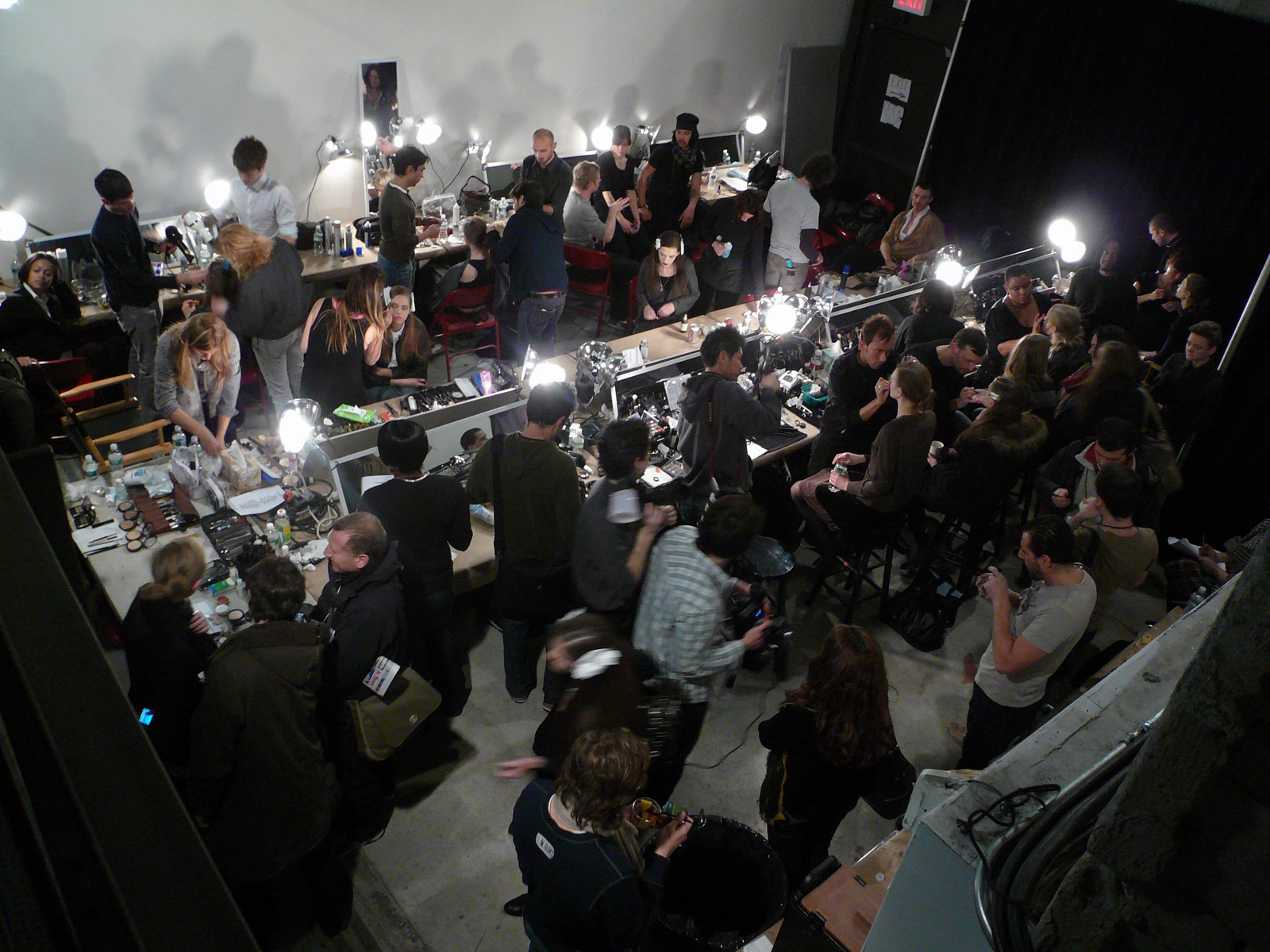 Hairstylists, makeup artists, and models backstage at the Philosophy fashion show, Fall 2008 New York Fashion Week.